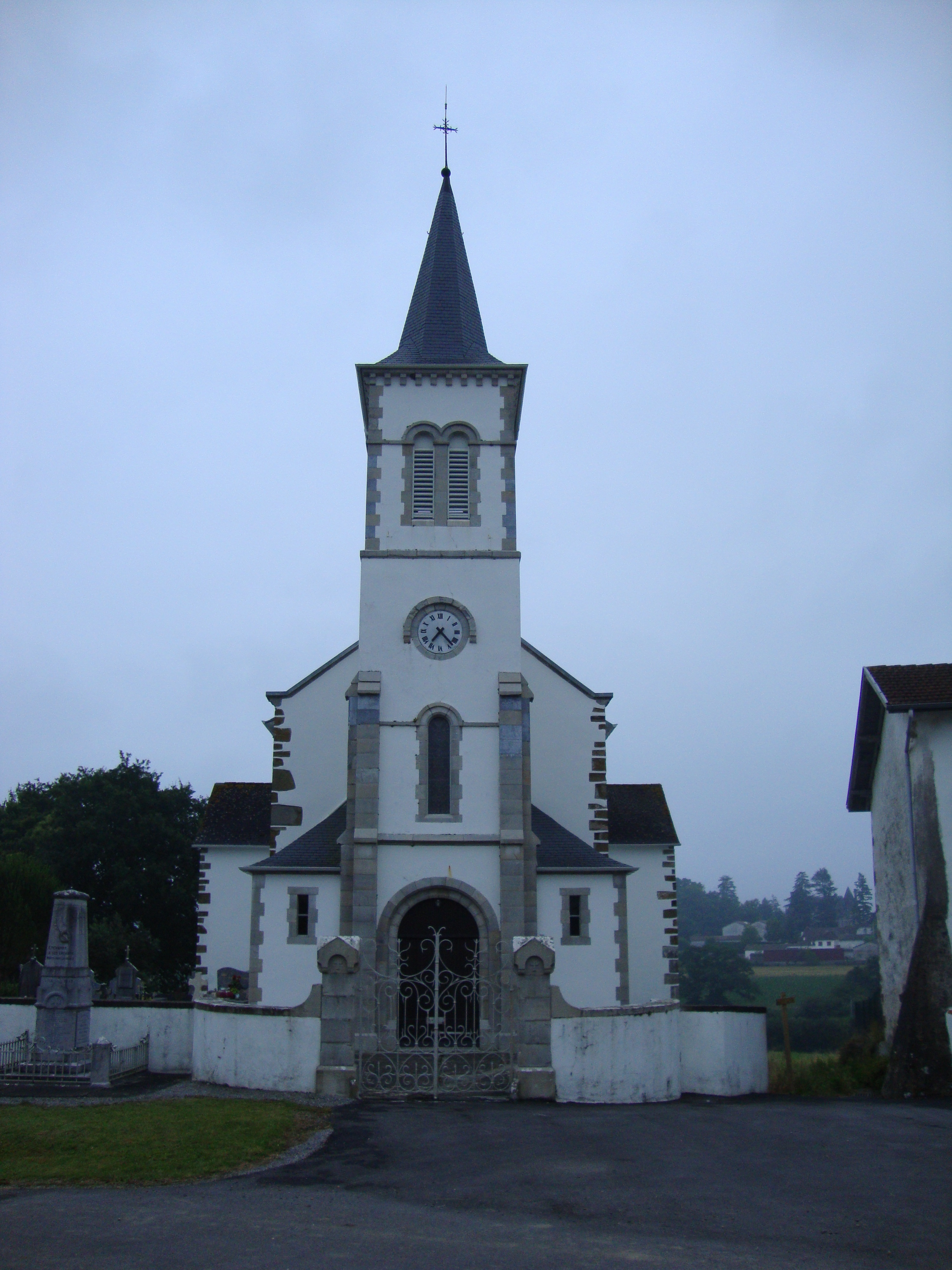 Etcharry (Pyr-Atl, Fr) church, facade and tower